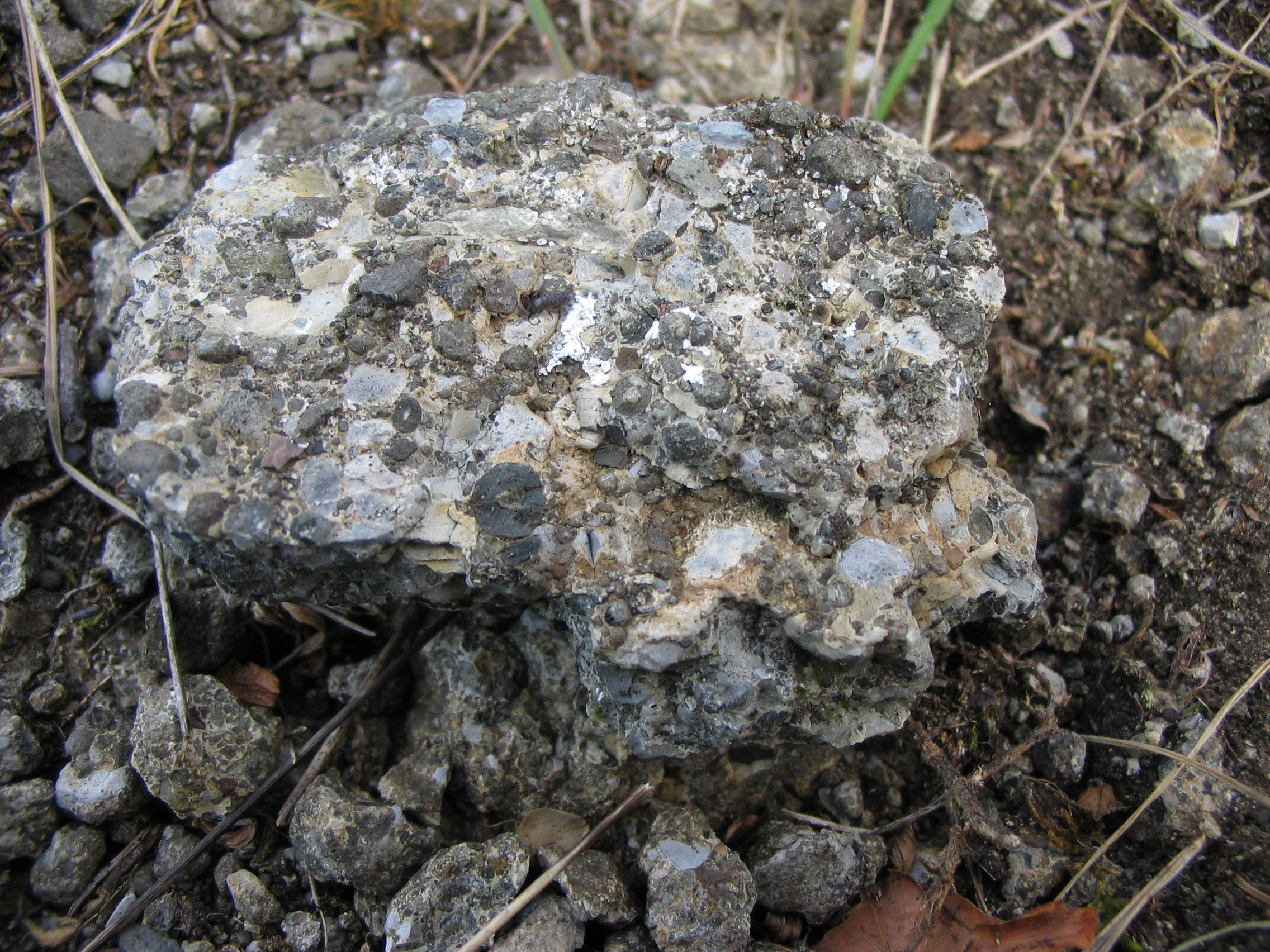 Pyroclastic breccia from a phreatomagmatic volcano, active only in Upper Miocene, "Urach-Kirchheimer Vulkangebiet" (Schwaebischer Vulkan) of the Swabian Alb.